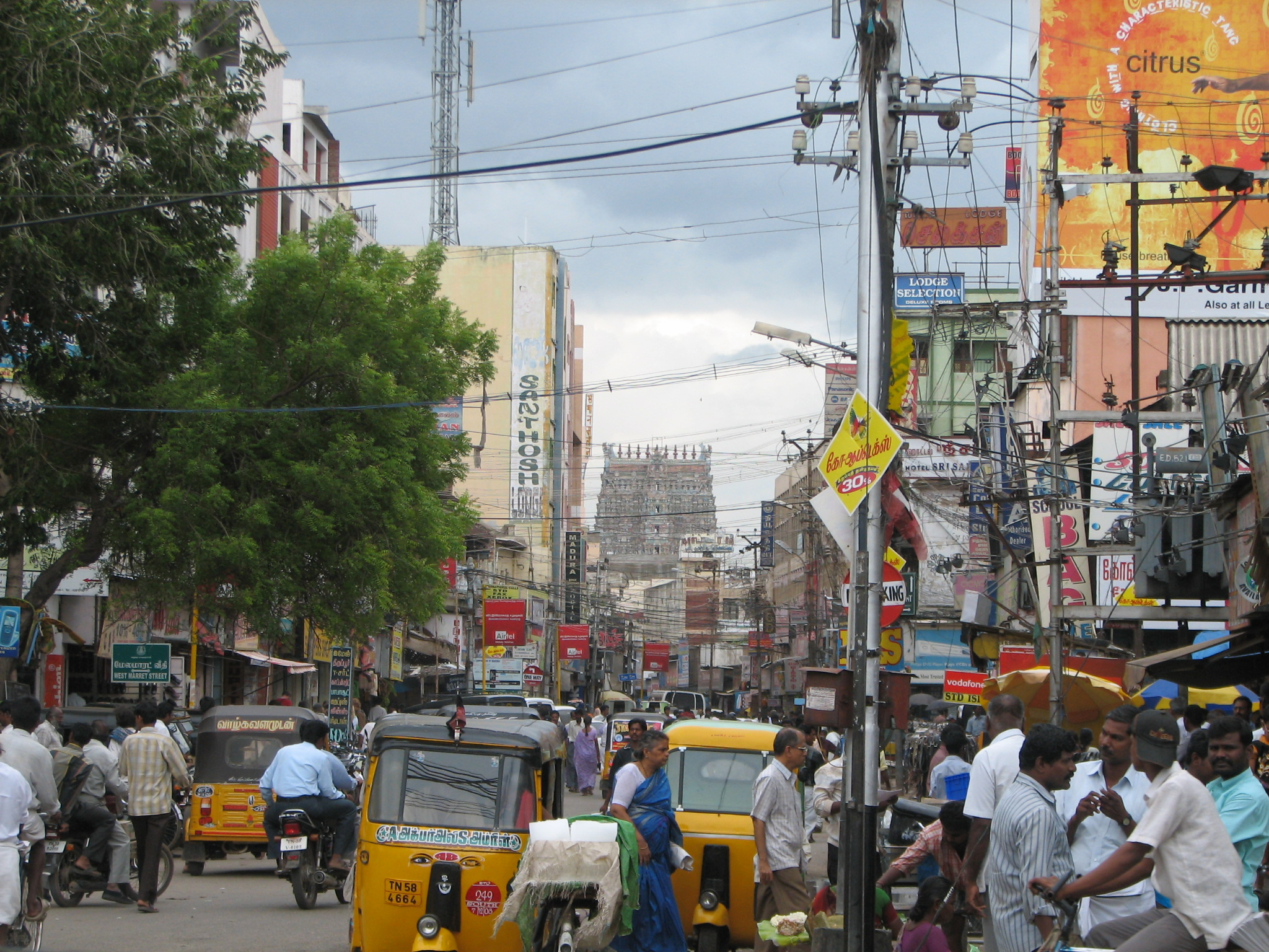 Street scenery in Madurai, India. The Meenakshi temple can be seen in the background.